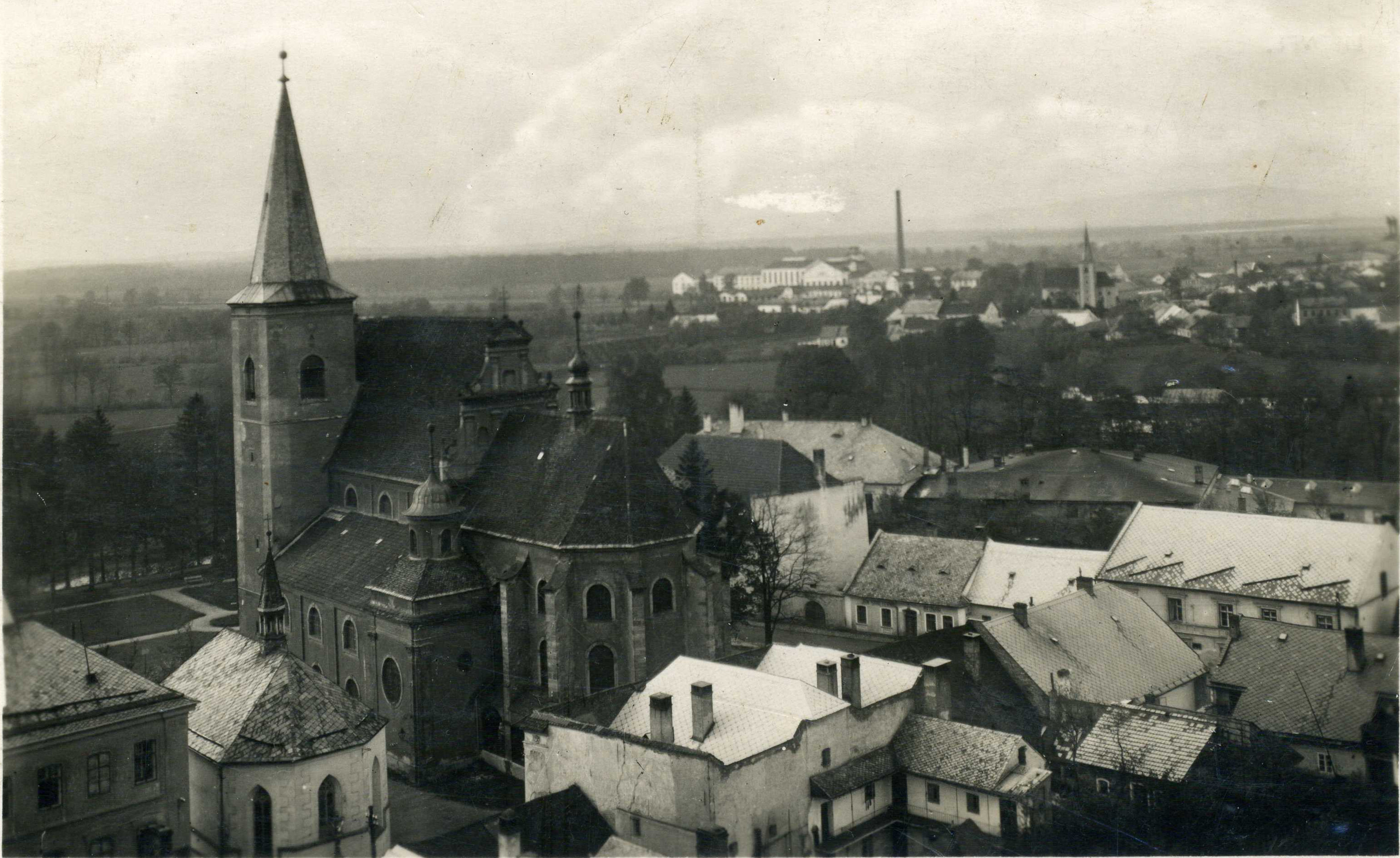 Historical postcard with the view from Litovel town hall. Saint Mark Church in the front, sugar factory and Church of Saints Philip and James in the background. The text on the backside reads "Grafo Čuda Holice".